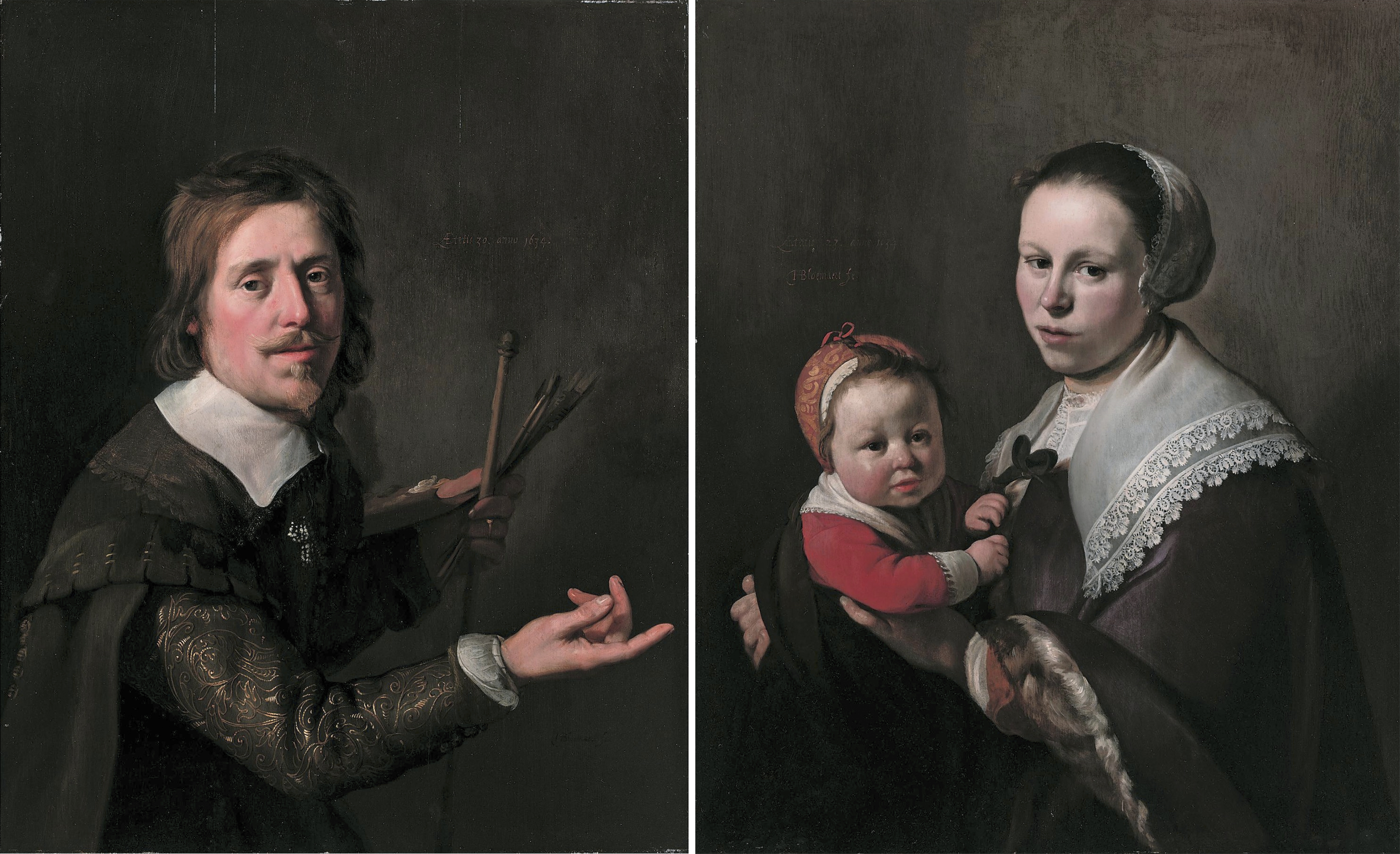 Gijsbert Gillisz. de Hondecoutre (1604-1653), holding a palette and brushes; and his wife Maria Hulstman, holding a child